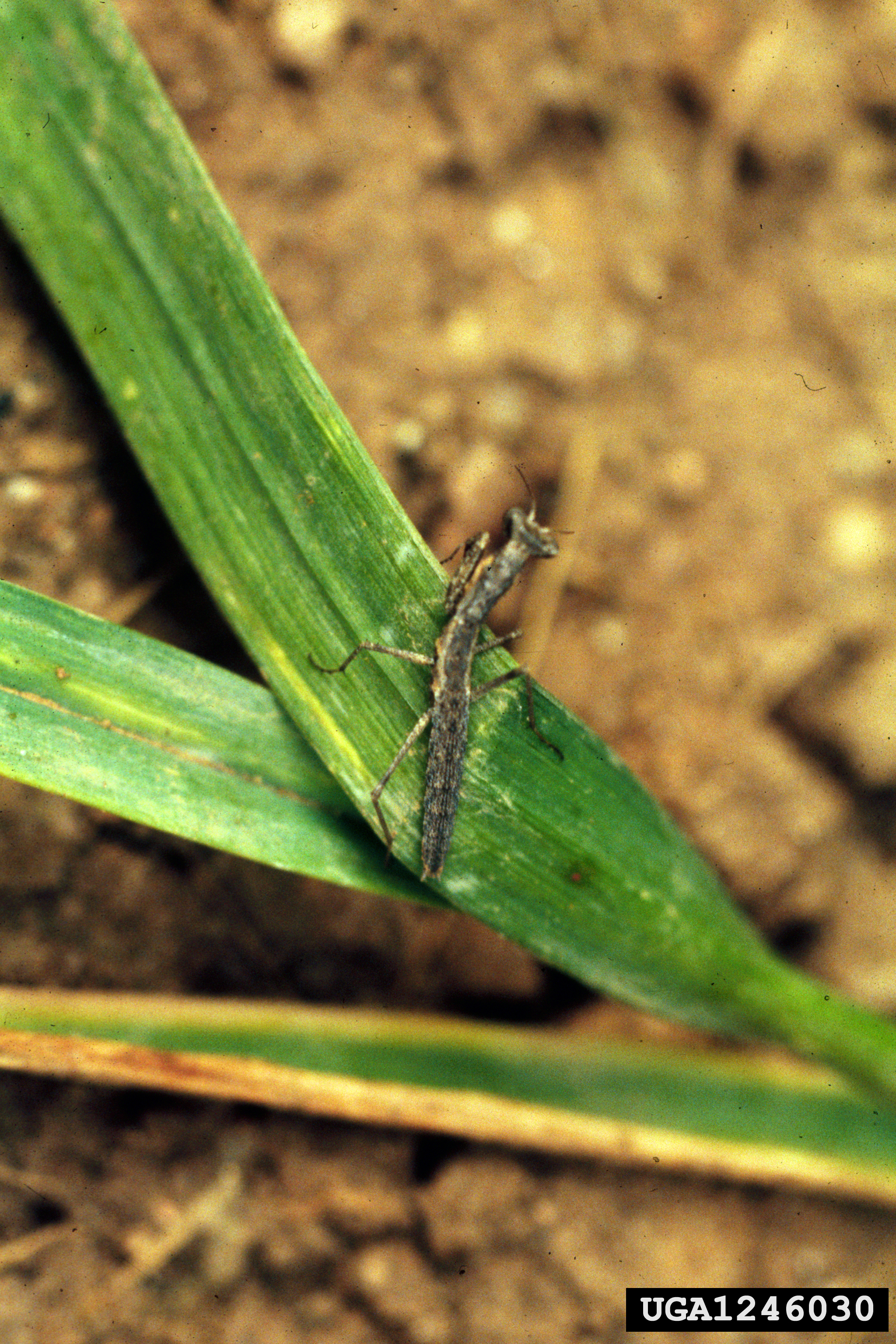 Nymph of Litaneutria minor